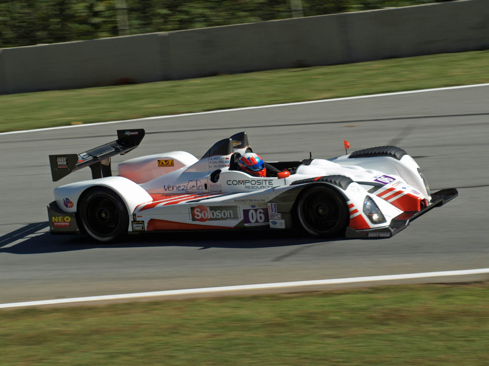 Ryan Dalziel in the Core Autosport Oreca FLM09-Chevrolet during qualifying for the 2012 Petit Le Mans